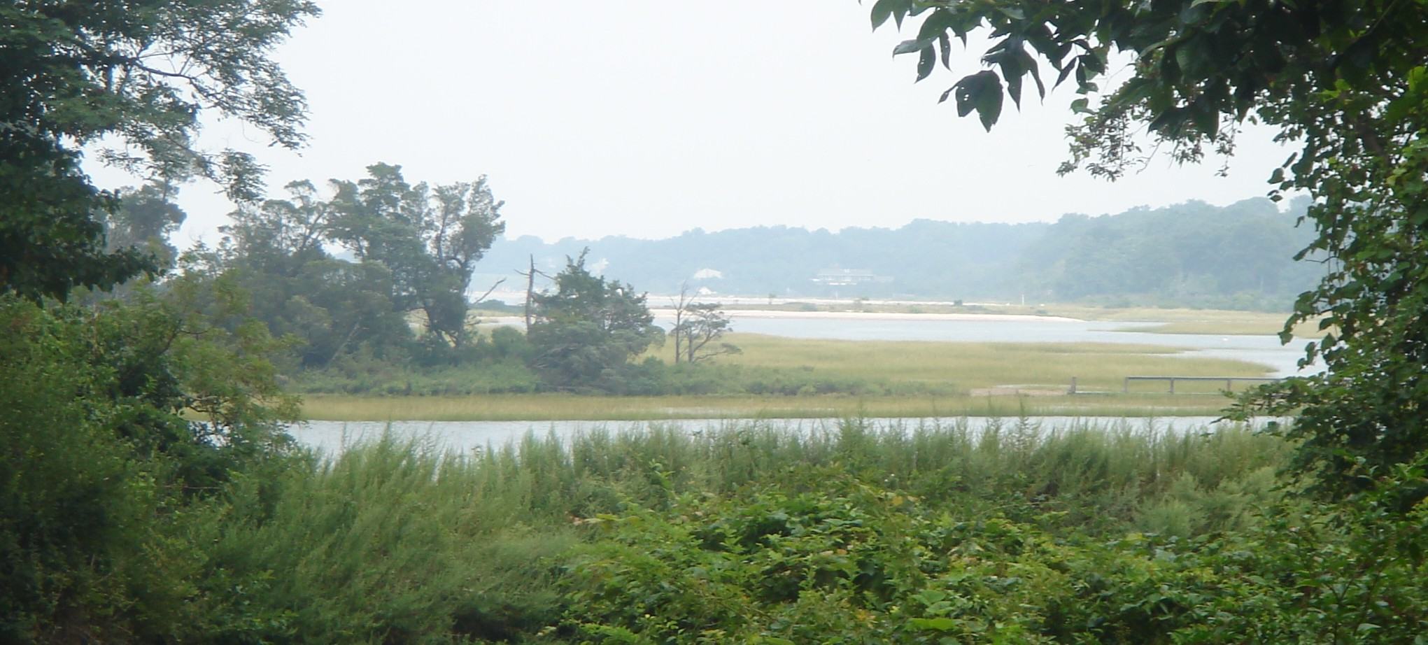 Lagoon Flax pond in Old Field, Long Island.